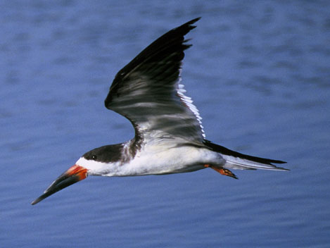 Black skimmer (Rynchops niger) WO-1446